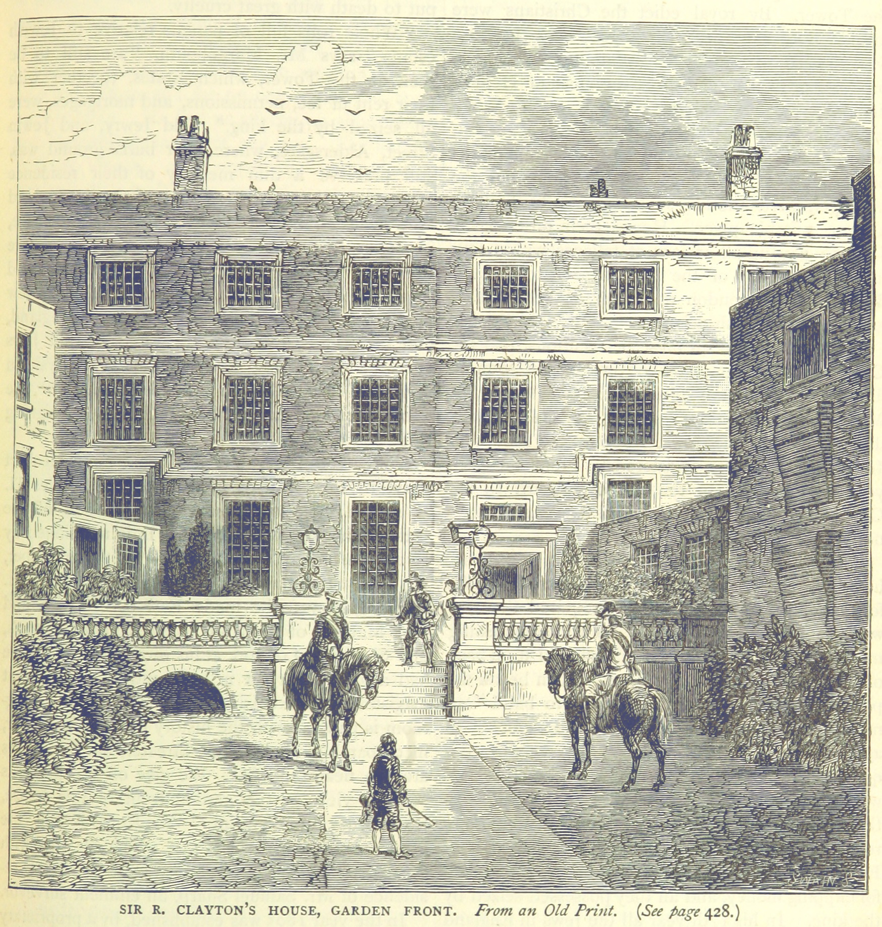 "No. 8, Old Jewry was the house of Sir Robert Clayton, Lord Mayor in the time of Charles II. It was a fine brick mansion, and one of the grandest houses in the street. It is mentioned by Evelyn in the following terms:—"26th September, 1672.—I carried with me to dinner my Lord H. Howard (now to be made Earl of Norwich and Earl Marshal of England) to Sir Robert Clayton's, now Sheriff of London, at his own house, where we had a great feast; it is built, indeed, for a great magistrate, at excessive cost. The cedar dining room is painted with the history of the Giants' war, incomparably done by Mr. Streeter, but the figures are too near the eye." Sir Robert built the house to keep his shrievalty, which he did with great magnificence. It was for some years the residence of Mr. Samuel Sharp, an eminent surveyor."